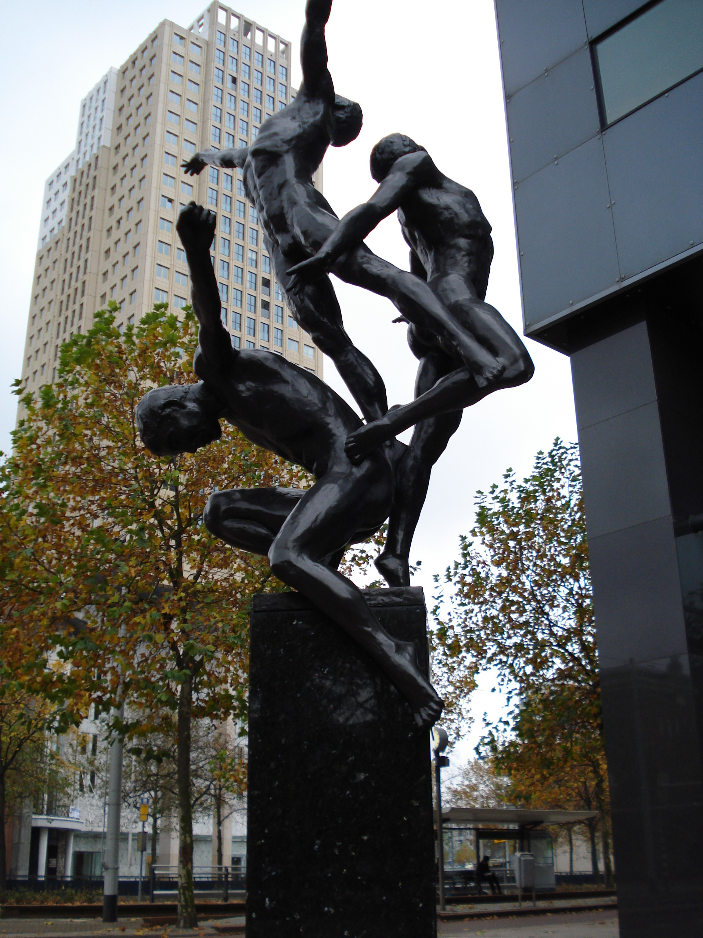 Sculpture Triomf (1995) by Kees Verkade in Rotterdam/The Netherlands